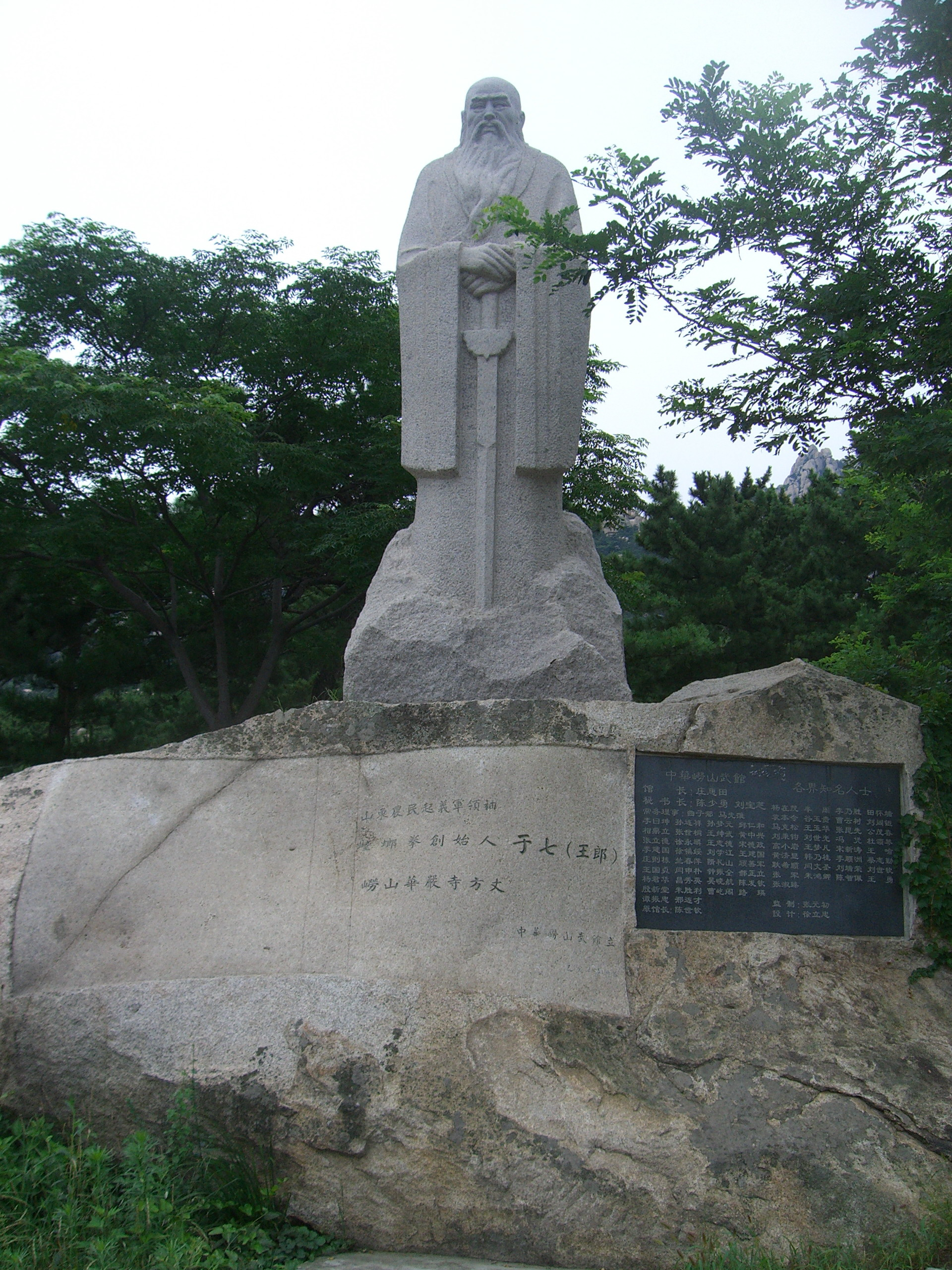 Statue of Wang Lang (Found of Tang Lang Quan) in Lao Shan (Shandong/China)